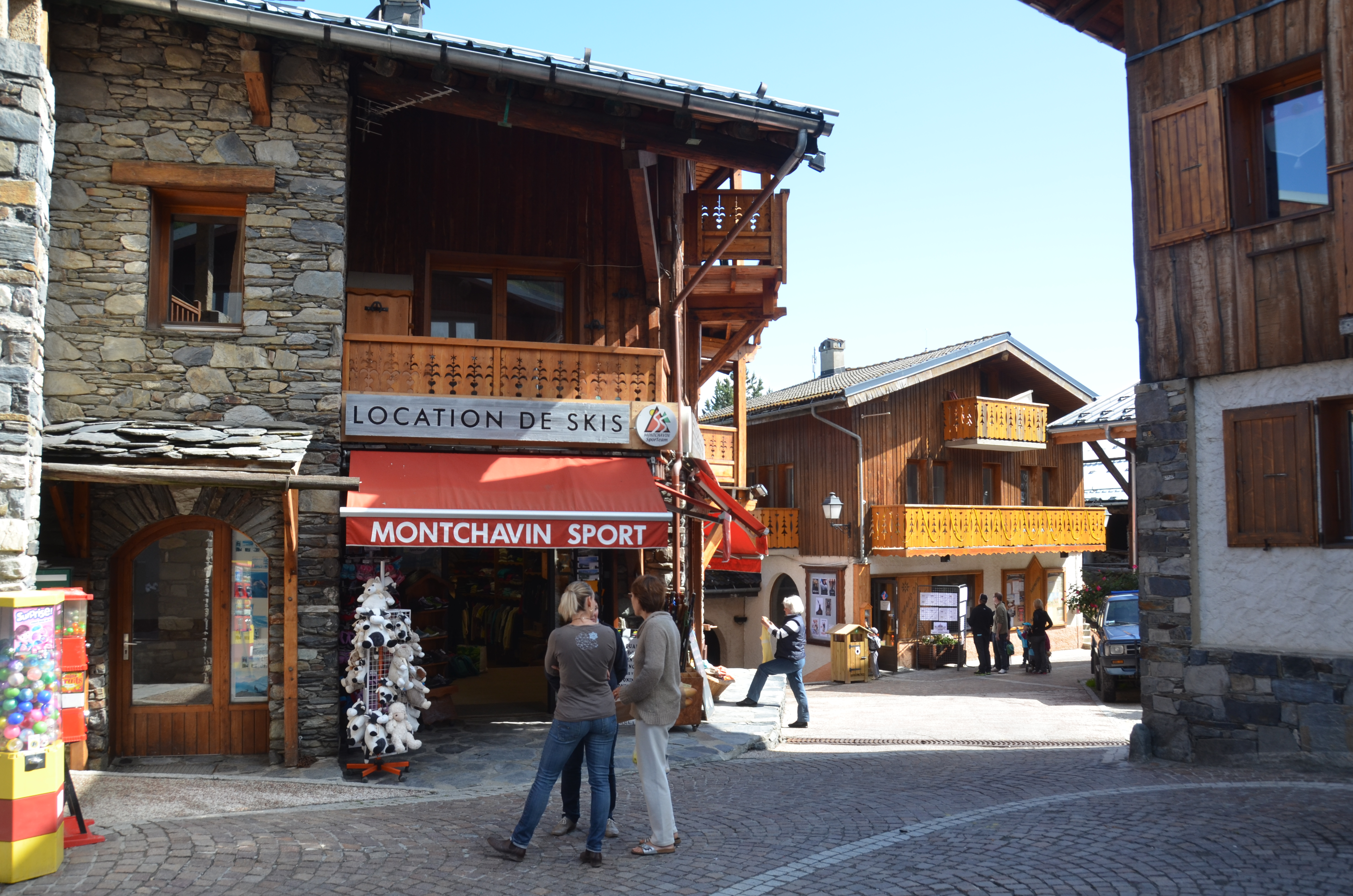 The center of the Ski-village Montchavin with traditional rock buildings